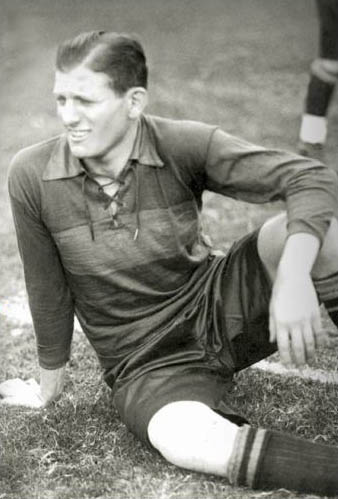 Argentine striker Domingo Tarasconi during his tenure on Boca Juniors.